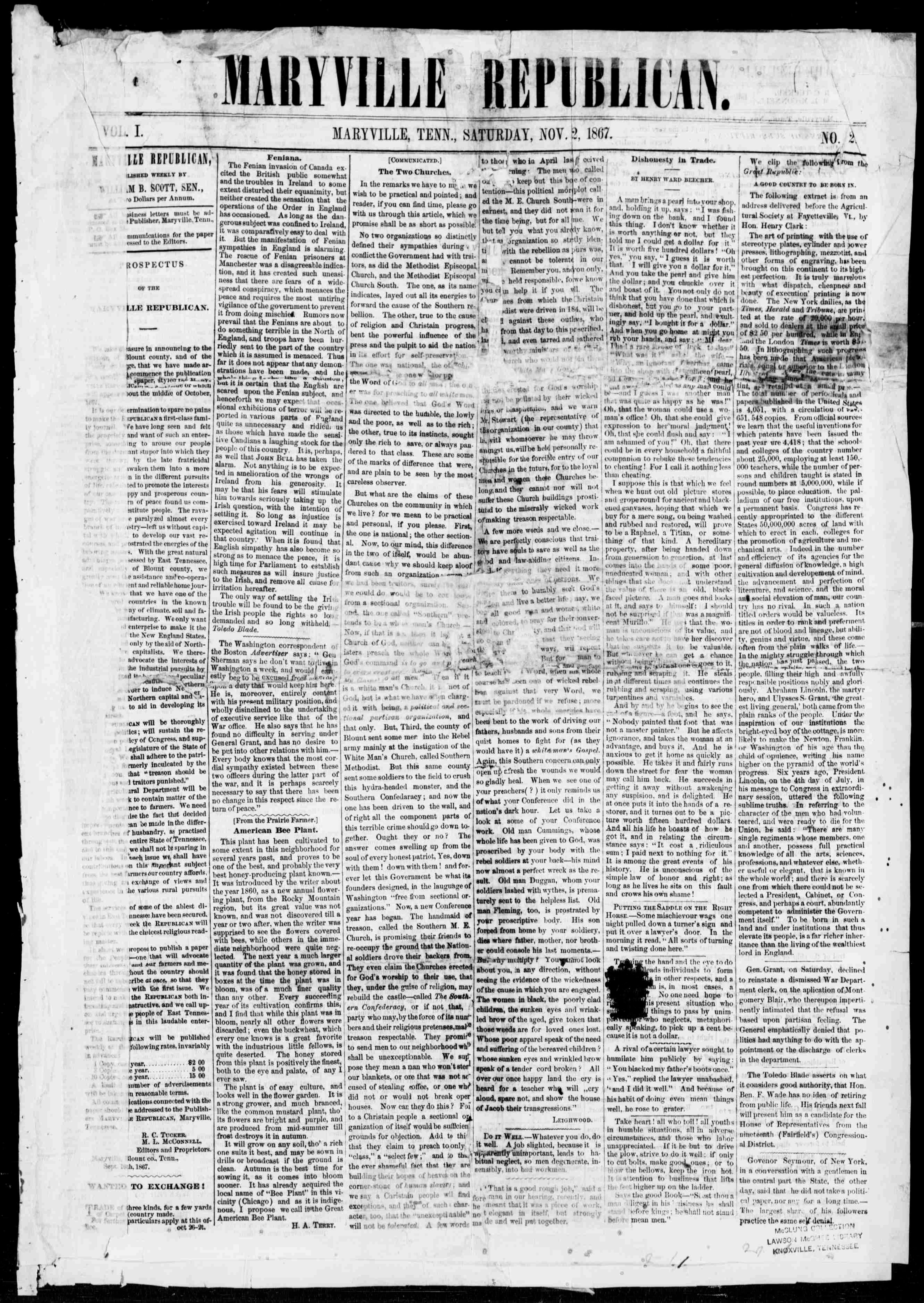 First page of second issue of the Maryville Republican, an early African American newspaper published by William B. Scott in Maryville, Tennessee, dated November 2, 1867.